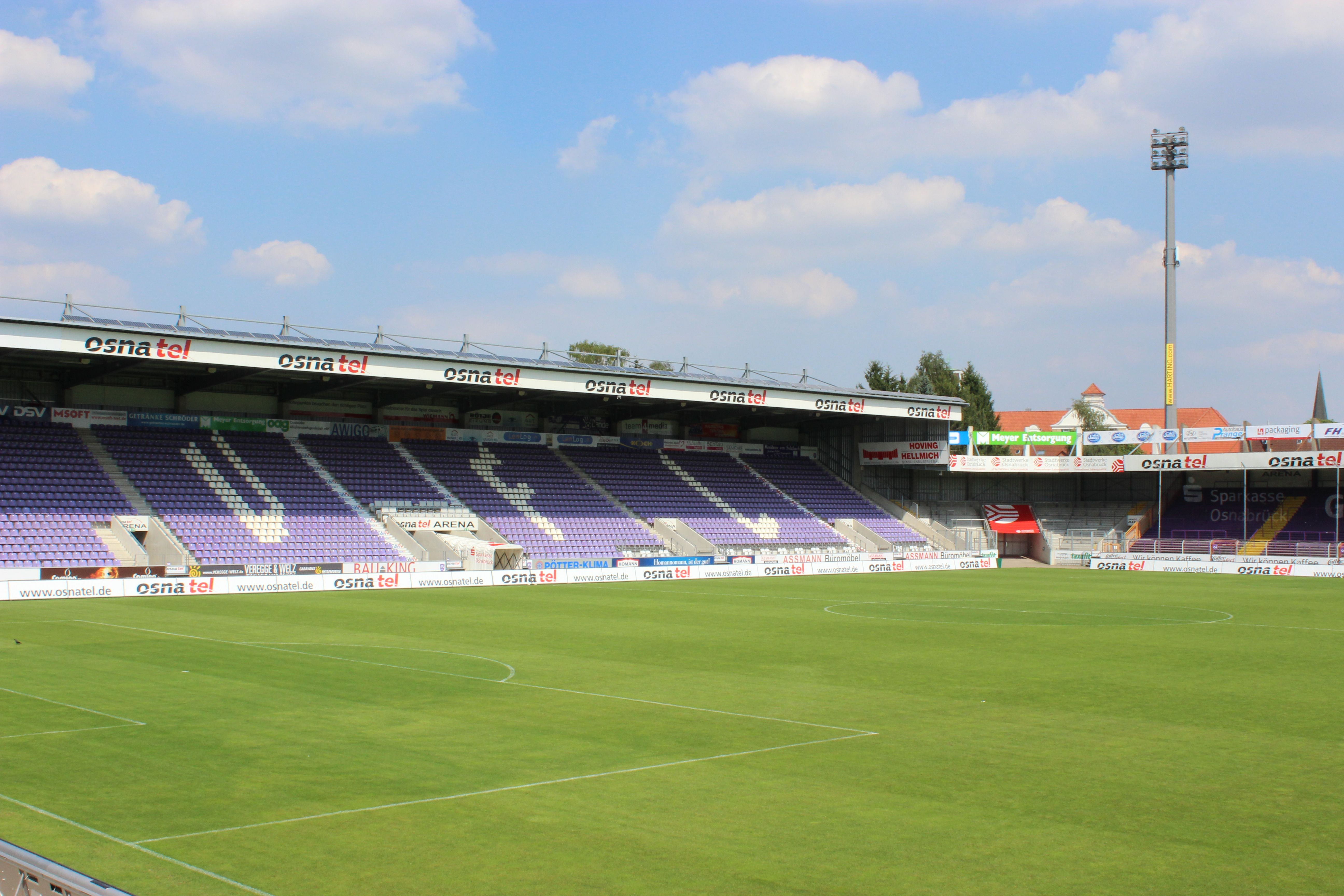 Osnabrück: osnatel Arena